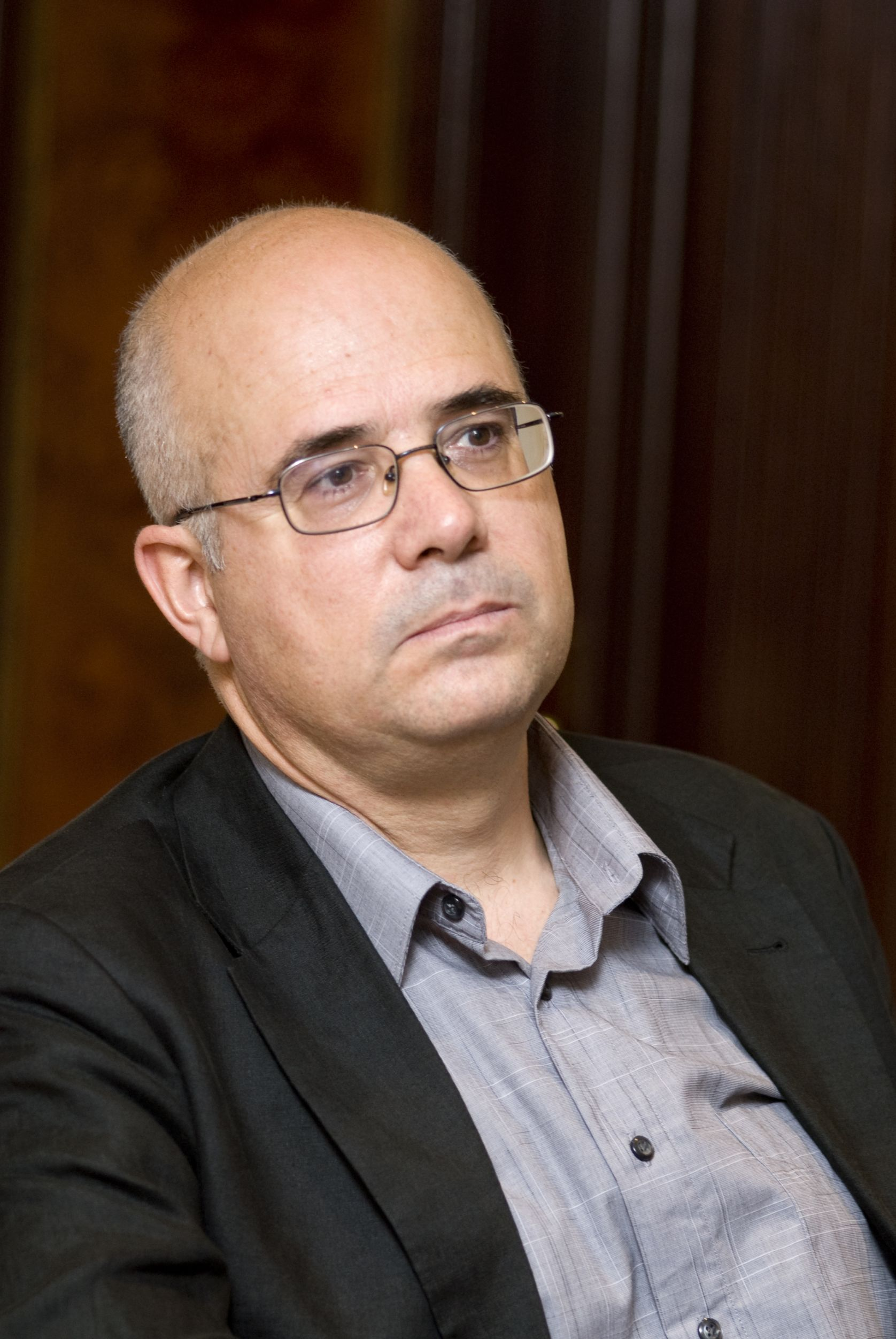 Photograph of Antón Patiño